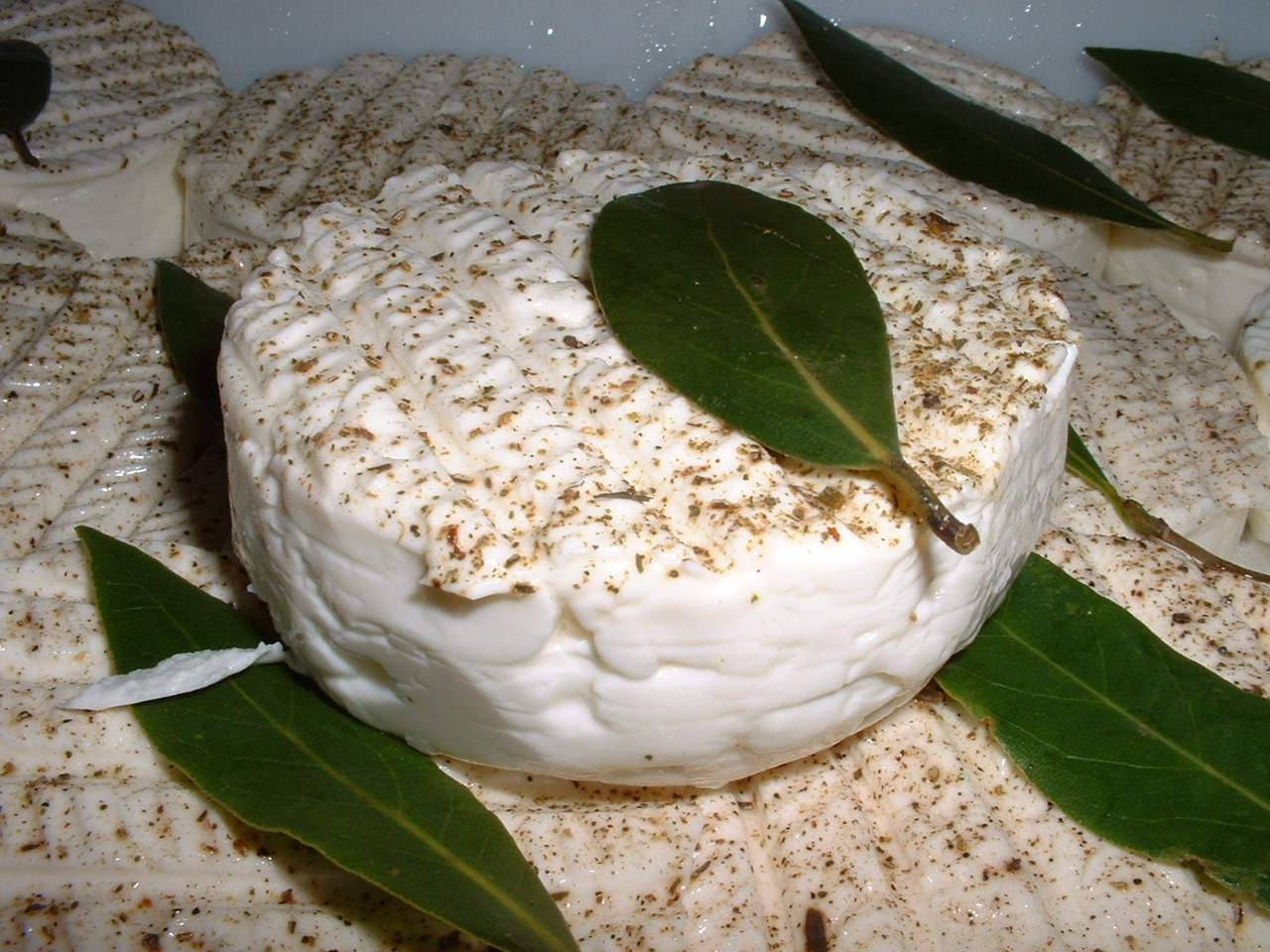 Photo of the fromage de Brebis frais de Camargue